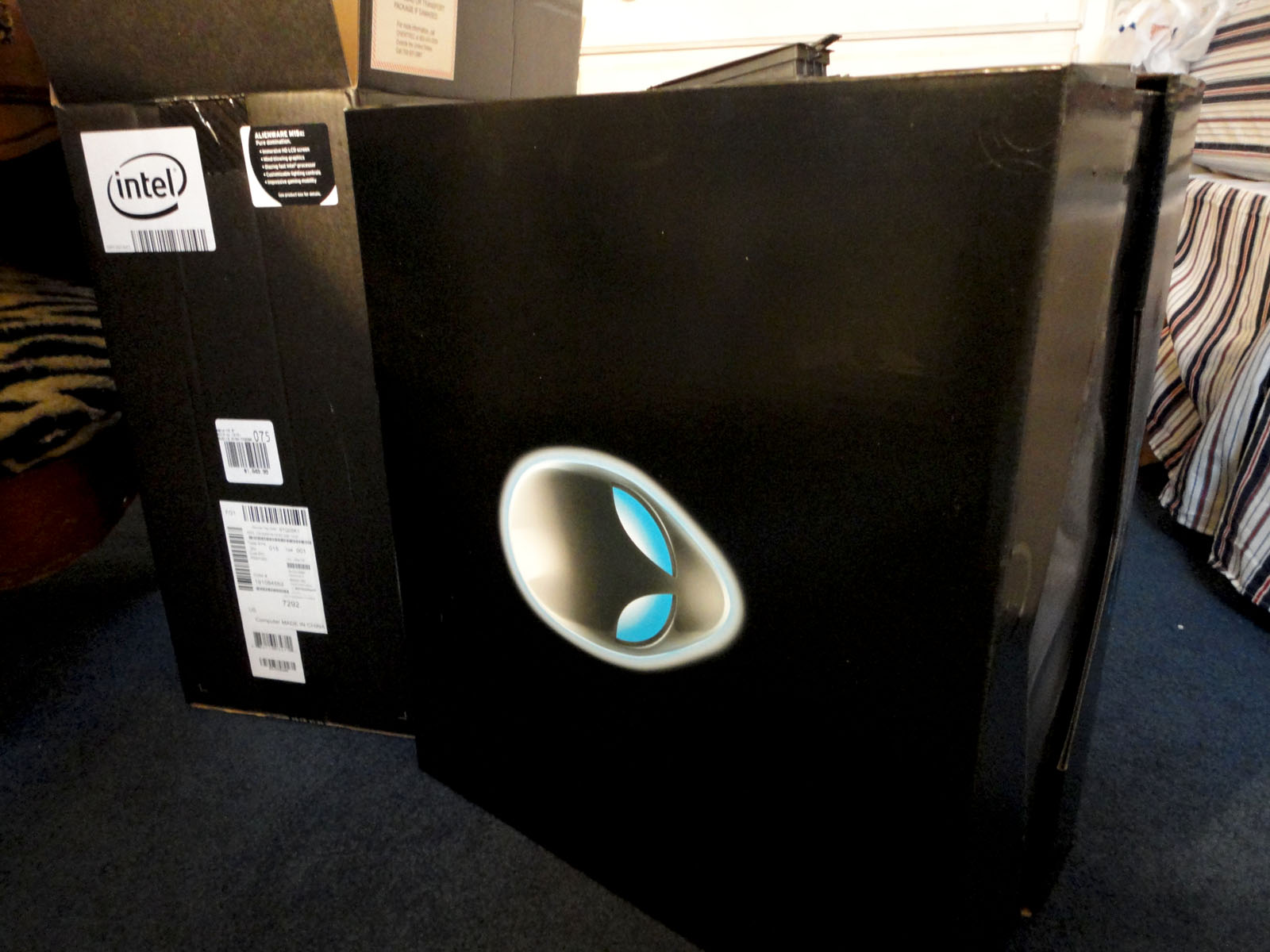 Alienware cargo box.